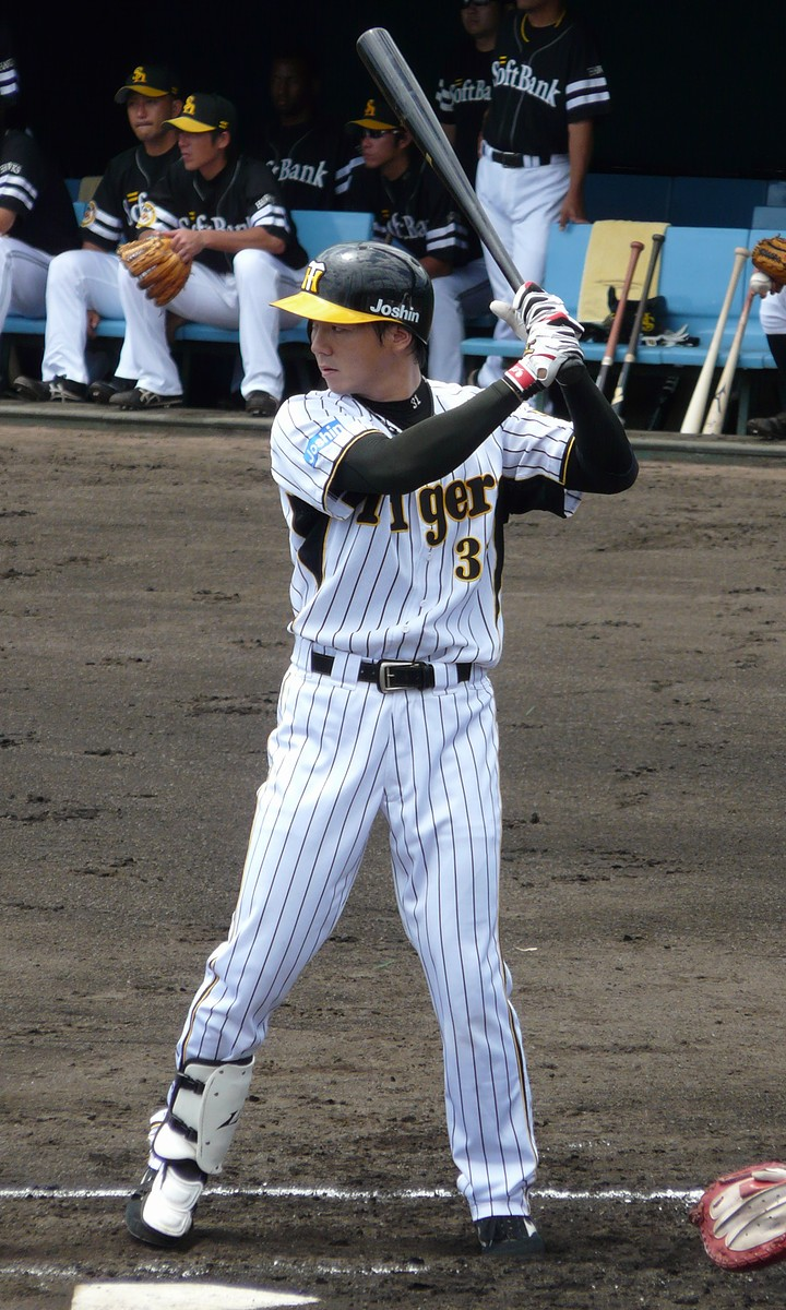 Lin Weichu